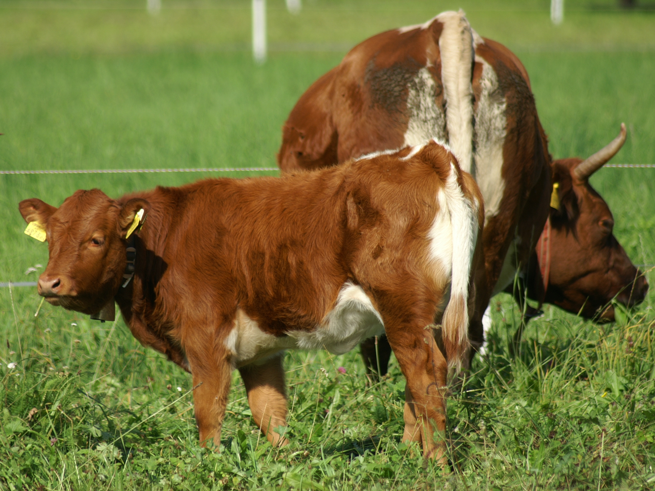 The Tux Cattle is a cattle breed that is particularly common in the alpine region. It is one of the old endangered cattle breeds. Tux is a village in the Tux Valley in Tyrol in Austria.